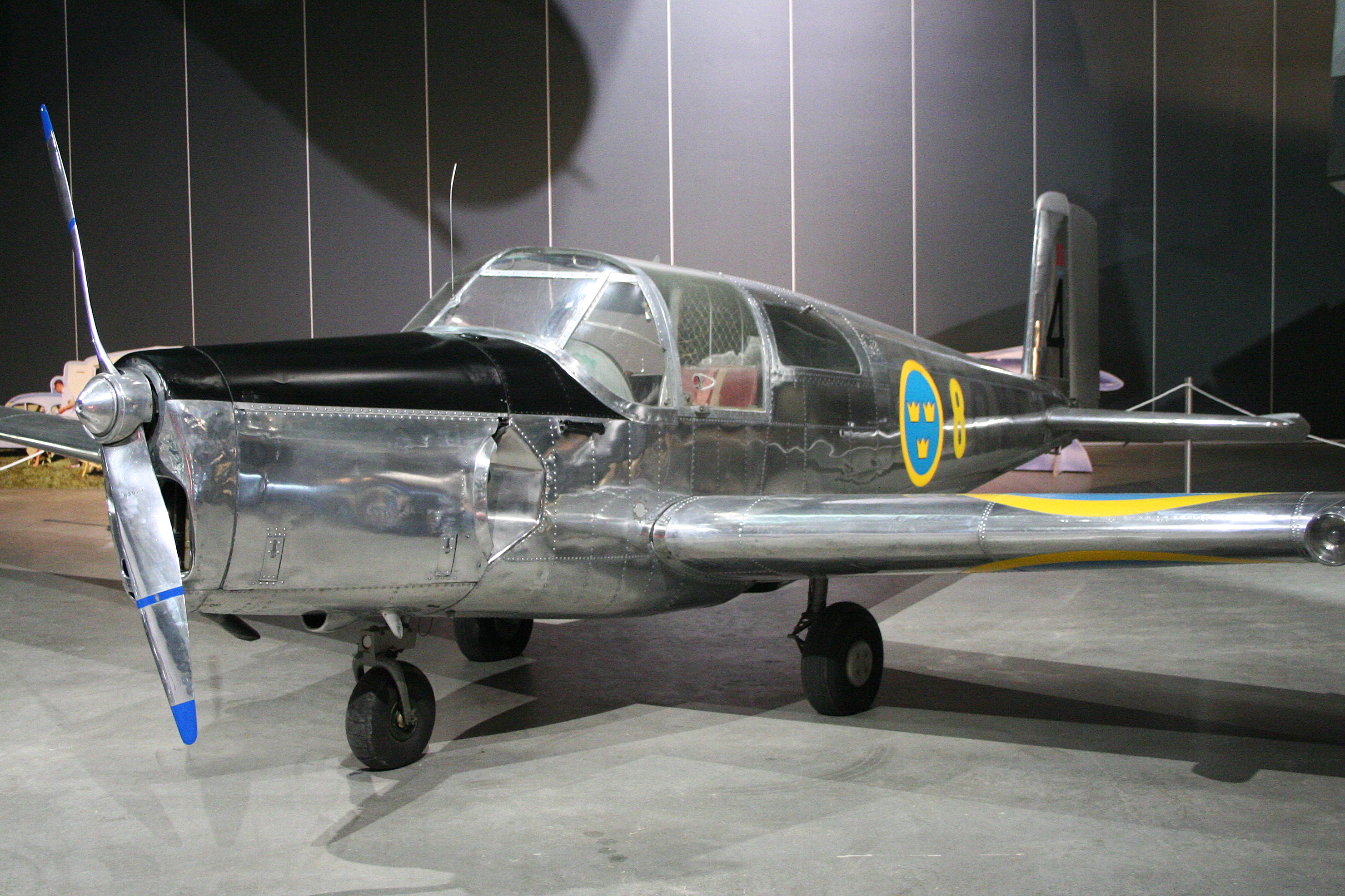 Despite the impressive markings, this is a purely civil Safir. It is actually the fourth Safir built. Note the Gipsy Major engine which was replaced by a Lycoming in later models. This aircraft is on loan to the museum from a private collection. msn 91-104. On display in the Cold War Hall at the Flyvapenmuseum, Malmen, Sweden. 04-06-2012